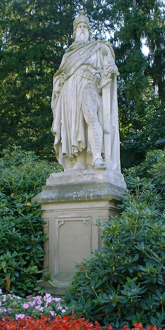 Monument of Frederick Barbarossa in Sinzig in Rhineland-Palatinate, Germany